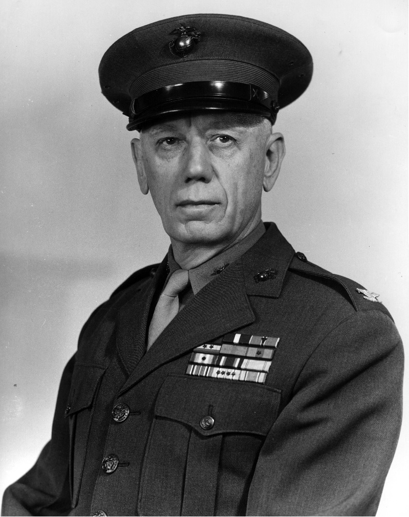 Merton Jennings Batchelder (March 5, 1896 - November 26, 1975) was an Officer of the United States Marine Corps with the rank of Brigadier General, who served as Commanding Officer of 25th Marine Regiment and later as Chief of staff of 4th Marine Division during World War II.